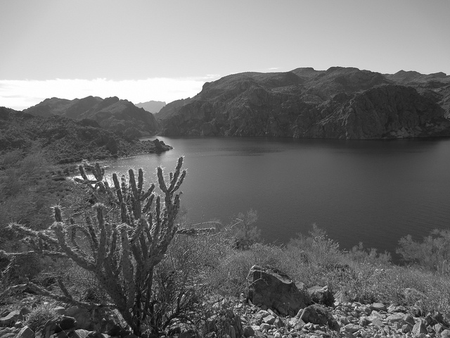 Butcher Jones Recreation Site Hiking Trail View